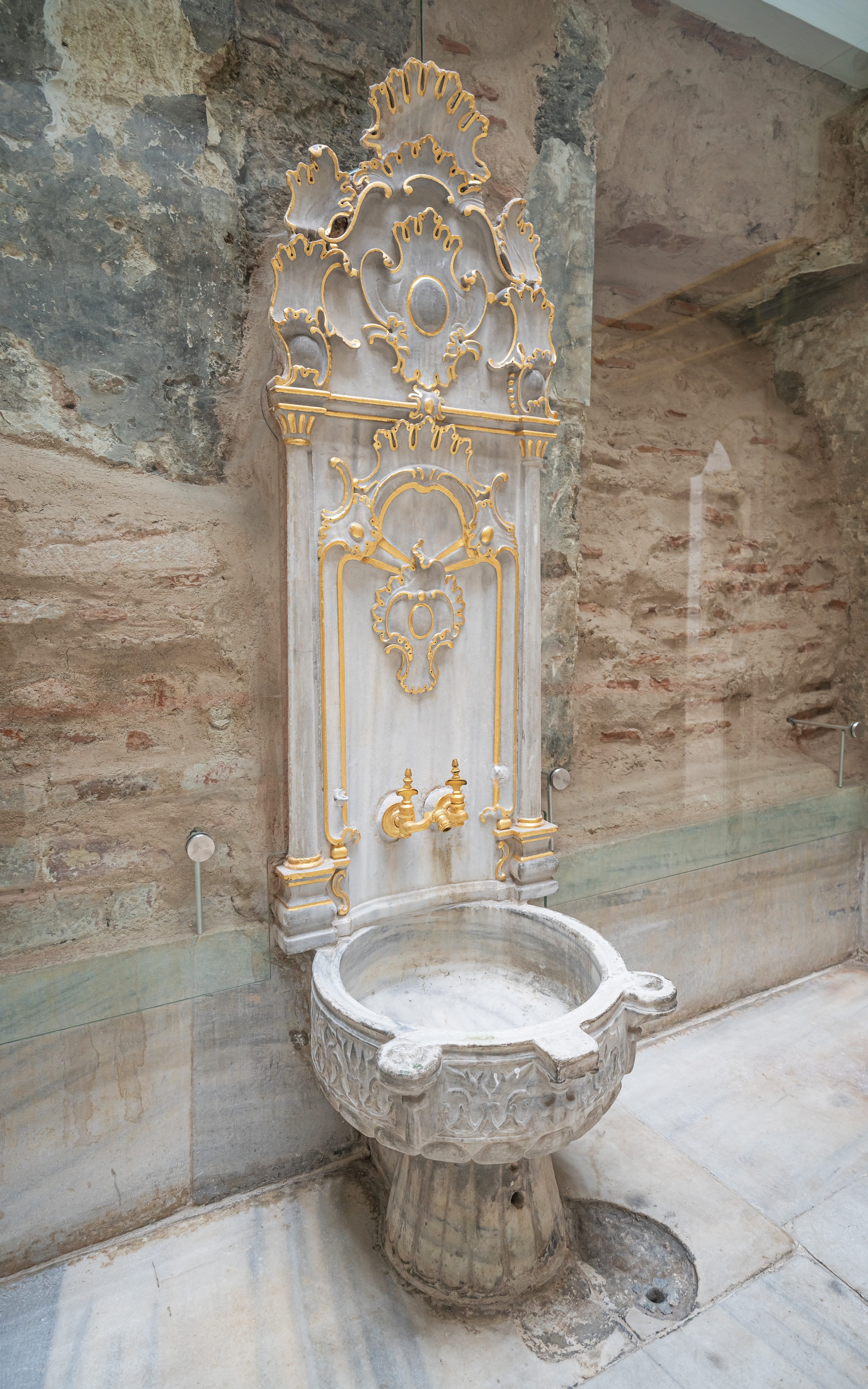 Baths in Harem of Topkapı Palace in Istanbul, Turkey